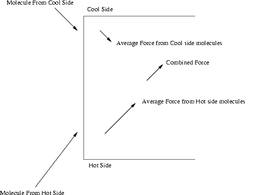 Image for crookes radiometer article. Created by Jrincayc for wikipedia.